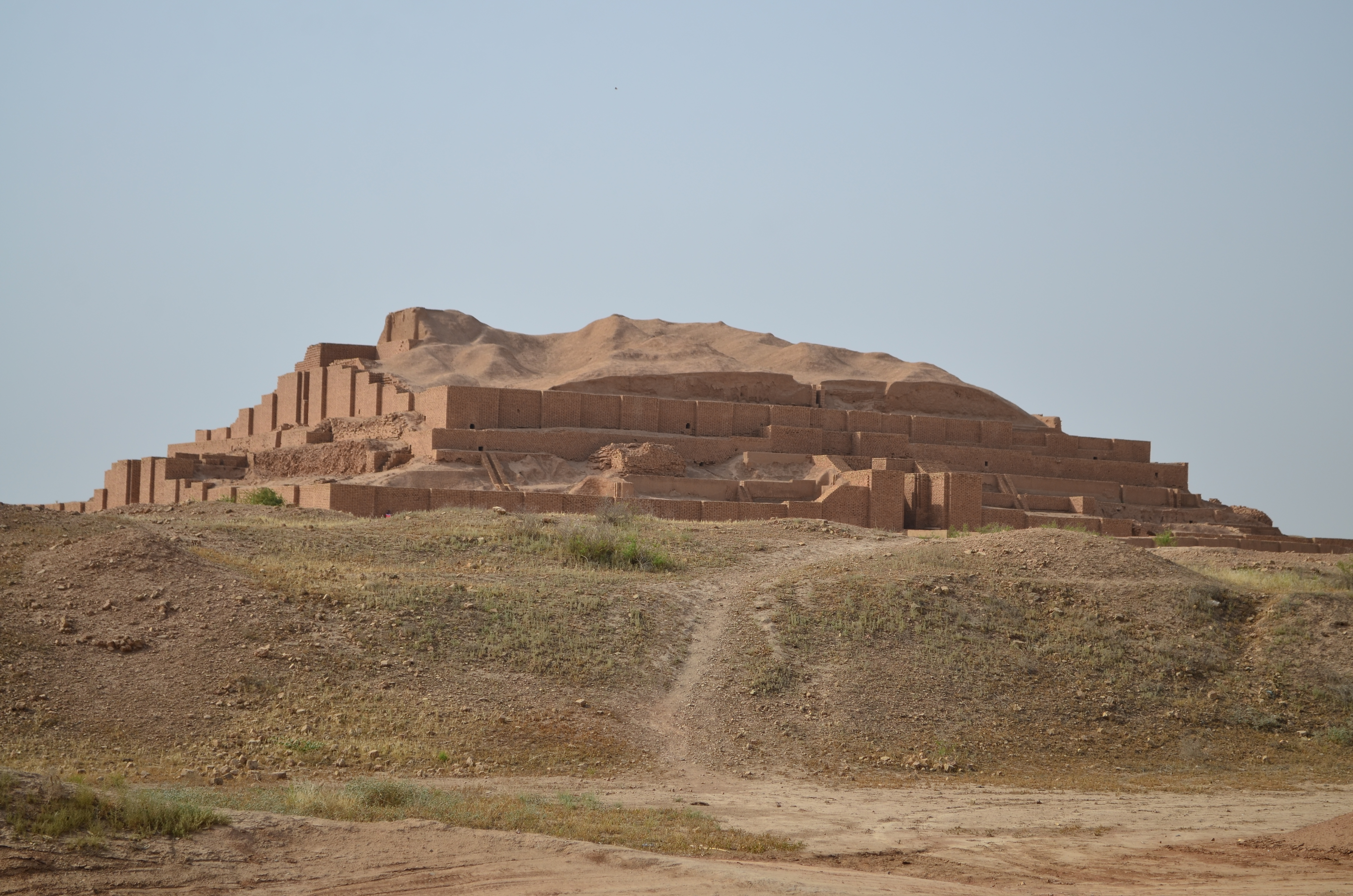 Chogha Zanbil